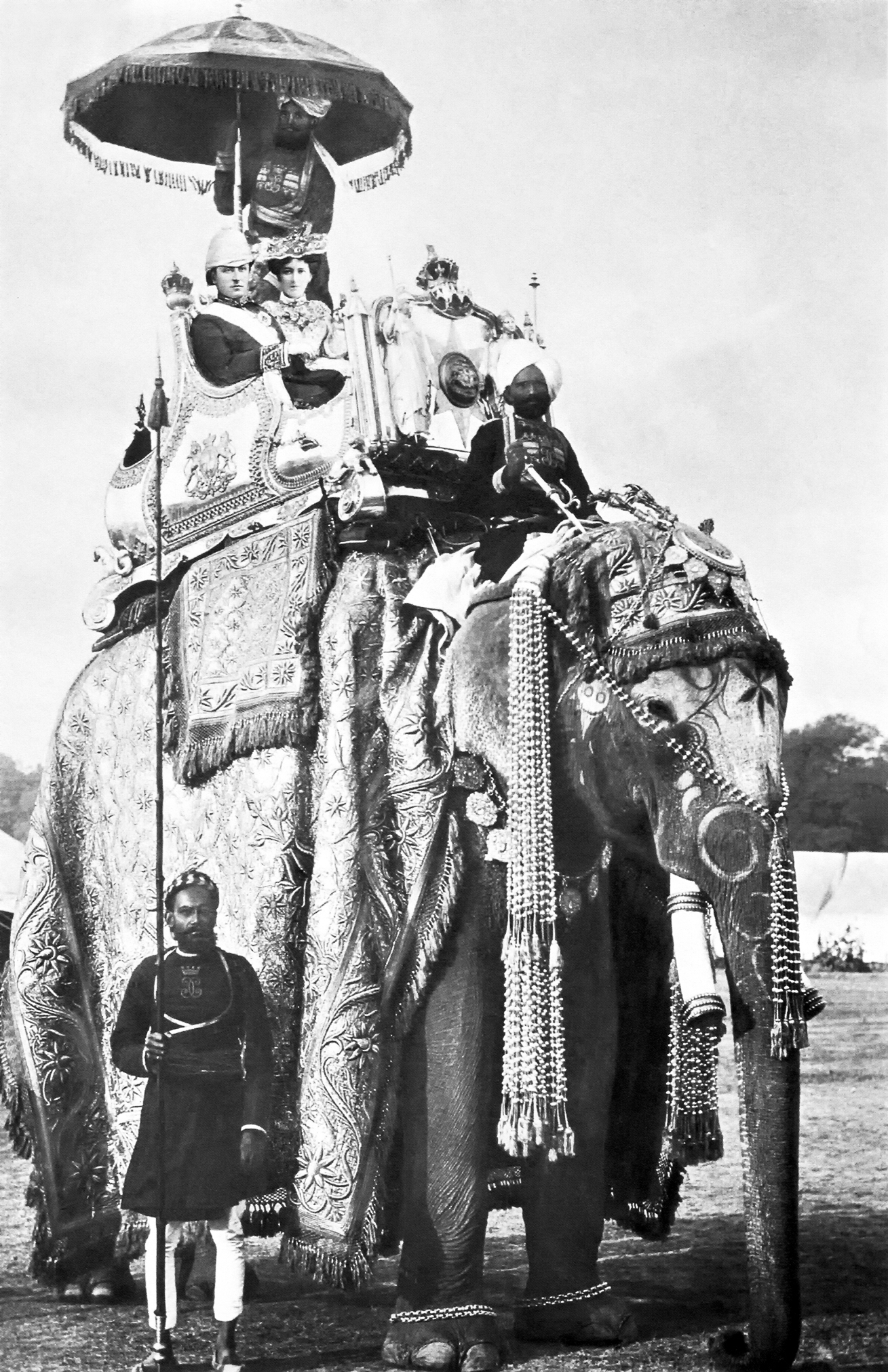 The Governor-General of India George Curzon with his wife Mary Curzon on the elephant "Lakshman Prasad" in Delhi 29 December 1902.